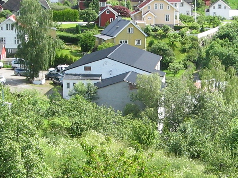 The old textile factory at Hermansverk.